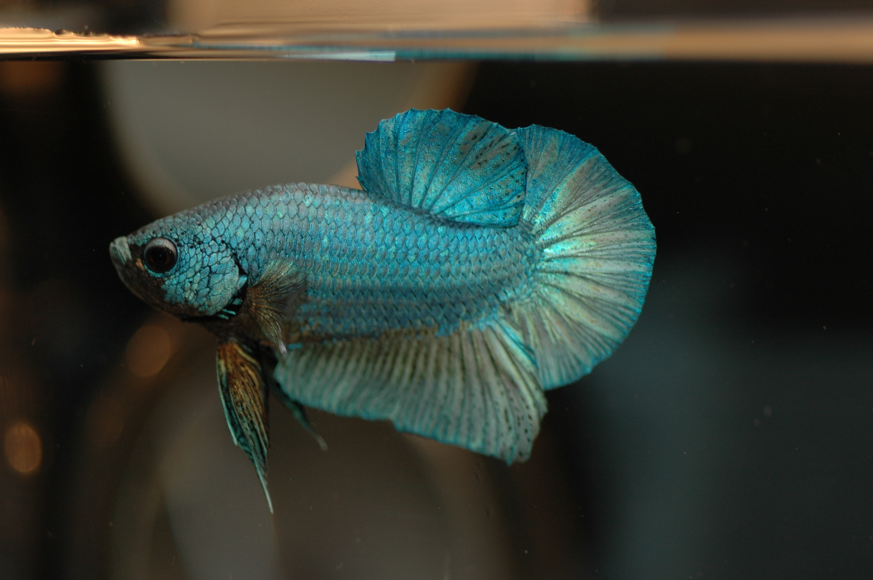 Siamese fighting fish Betta splendens, halfmoon plakat, male, in an aquarium.